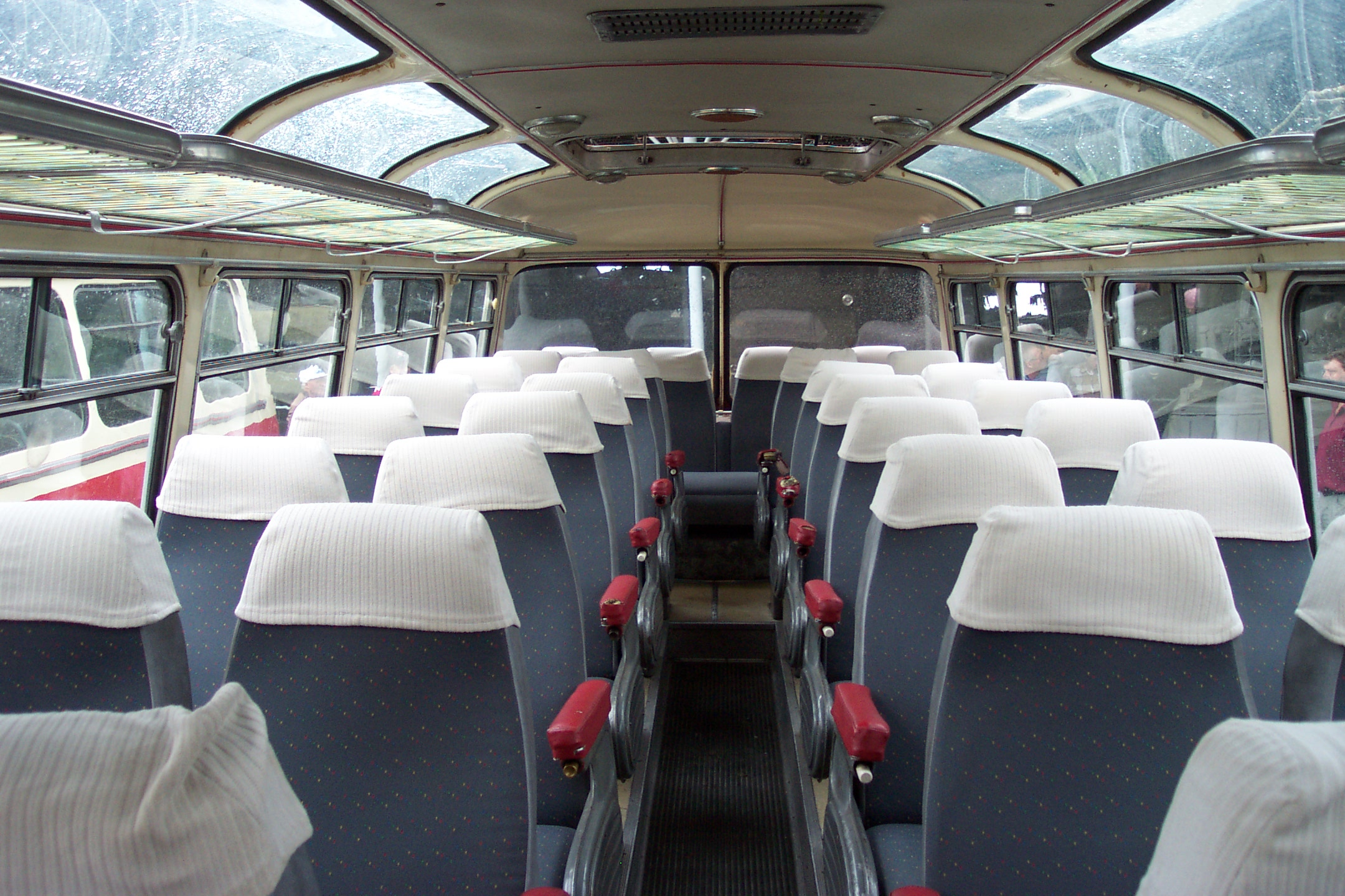 Renovated bus type Škoda 706 RTO in the Lešany museum